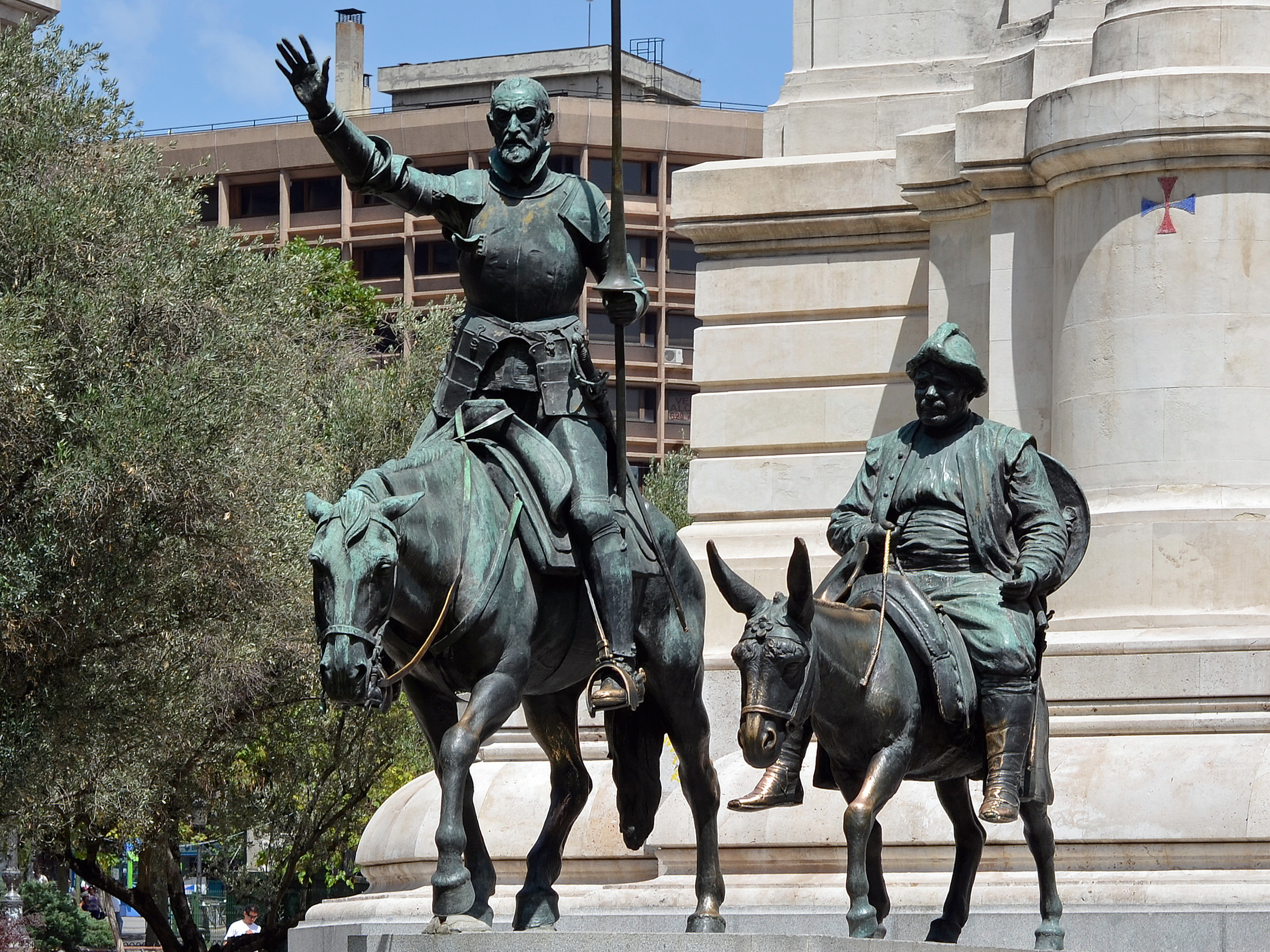 Monument to Don Quixote and Sancho Panza, Madrid